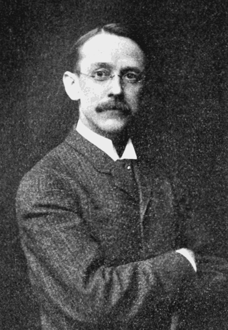 Henry Crew